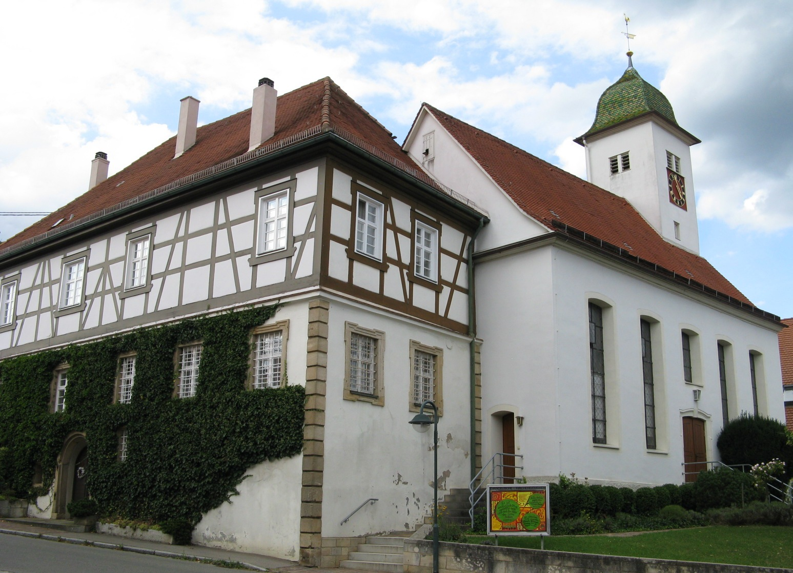 Rübgarten (local center of Pliezhausen), Germany - castle and protestantic church